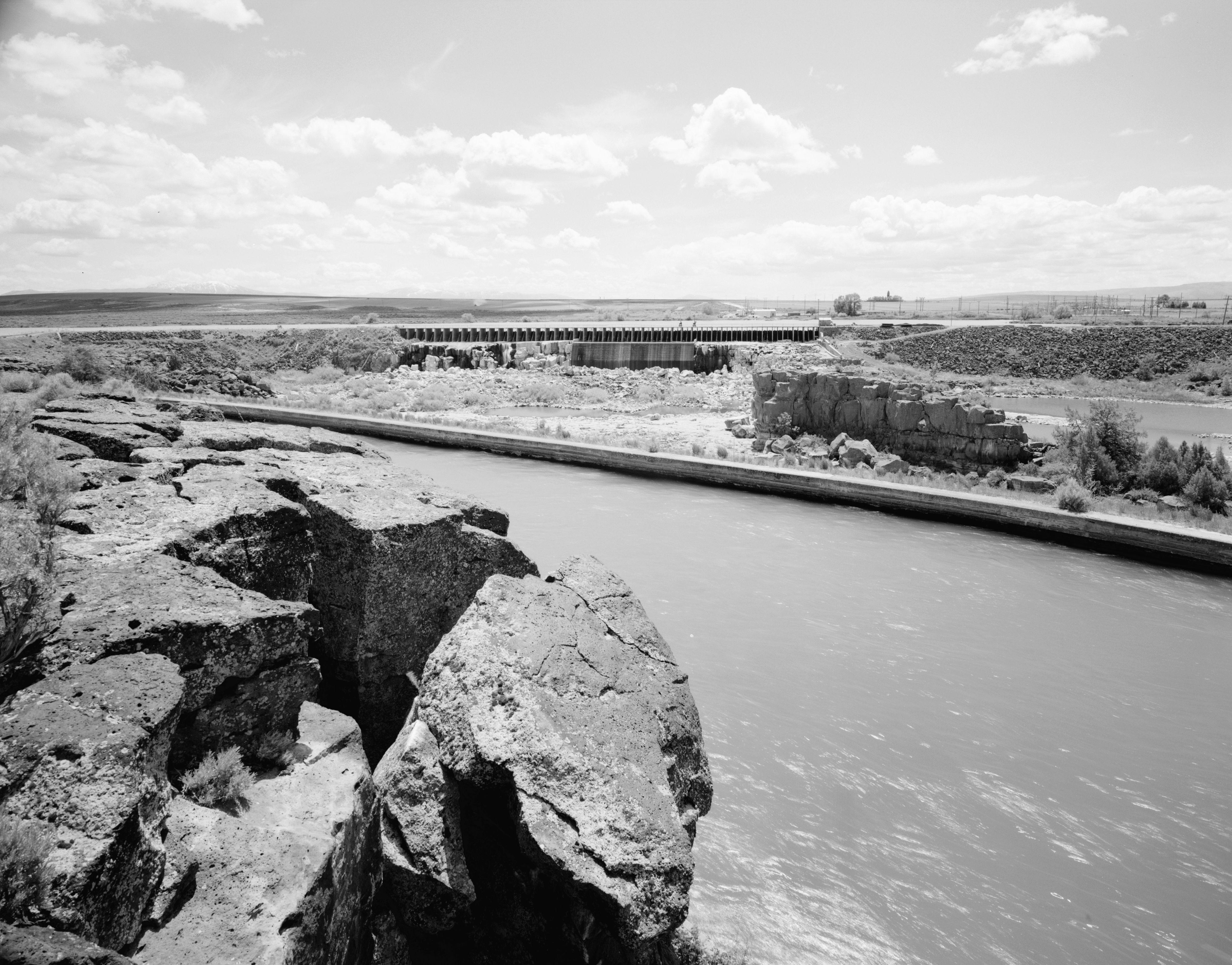 Looking southward at Milner Dam on the Snake River, with the North Side Canal in the foreground, near Burley, Idaho, United States. Constructed in 1902, the canal and dam are listed on the National Register of Historic Places as the Milner Dam and the Twin Falls Main Canal.